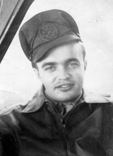 Transport entrepreneur Pentti Lumiaho from Jalasjärvi, Finland. Founder of courier service Kuljetusliike P. Lumiaho, son of bus and cargo entrepreneur Eero Lumiaho (1912–1972).